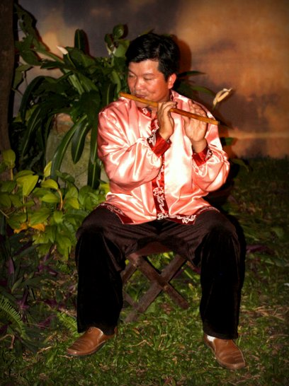 player of Sáo trúc (Vietnamese bamboo flute)